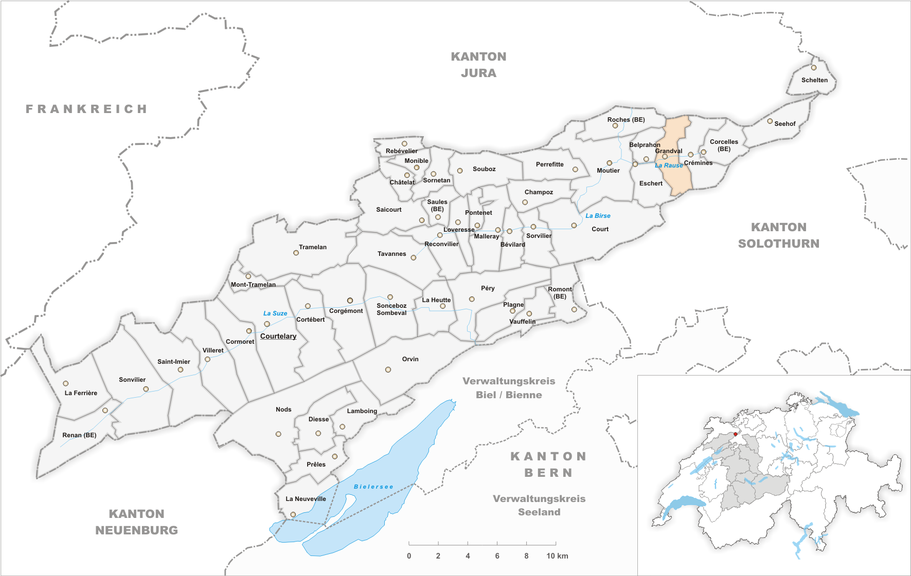 Municipality Grandval